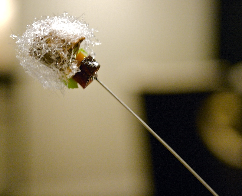 TIME 11:37 LICORICE CAKE, muscovado sugar, orange, anise This was the one I was waiting for, in terms of plating, since every review I've read mentions the craziness of the one-bite dish on a stick that you're not allowed to eat with your hands. In our case, this was the licorice cake, which, on the stick, rather resembled a dandelion -- a ball of spun sugar fluff, with the gelatinous frozen licorice cake at the center with anise and orange accents. Sue Wen: This was actually a bit big (ahem) for my mouth, as the spun sugar ended up slightly stabbing my tongue in the one-bite process. Also, our whole group agreed that somehow, this flavor combination tastes like meat. I have no idea why. Kevin: I still claim I had a good approach here. After seeing other people gash their mouths on the sugar spikes, I figured I'd simply stick the thing in my mouth without closing down that much. In this way I could melt the ends of the spikes until I could fully bute down without cutting myself. This was working just fine until Elisa & Sue Went started laughing, which then caused me to laugh.